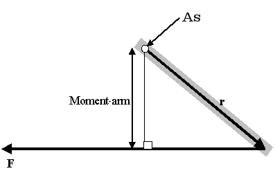 Diagram showing moment arm.